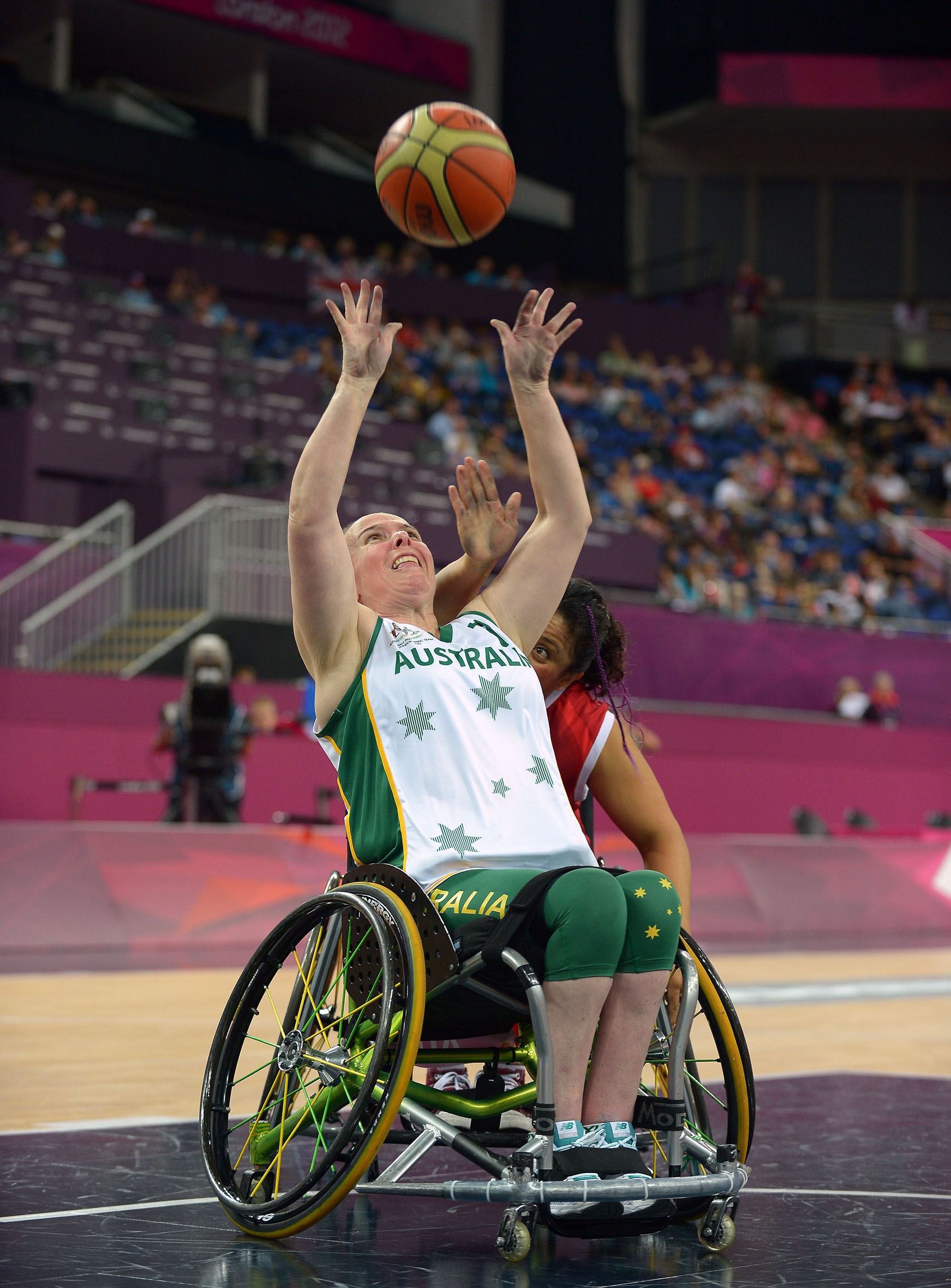 Photograph of Australian Paralympic team member Amanda Carter at the 2012 Summer Paralympic Games in London